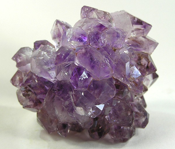 Quartz (Var.: Amethyst) Locality: Turkana District, Rift Valley Province, Kenya (Locality at ) Size: 5.2 x 4.4 x 3.4 cm. An absolutely fantastic locality piece for a quartz collector - this is from the Rift Valley in Kenya, which has produced some large crystals impressive mostly for their size, but this is a very uncommon knob of incredibly gemmy and bright crystals - somewhat similar to those you occasionally see from India, with glass-like luster and terrific clarity.